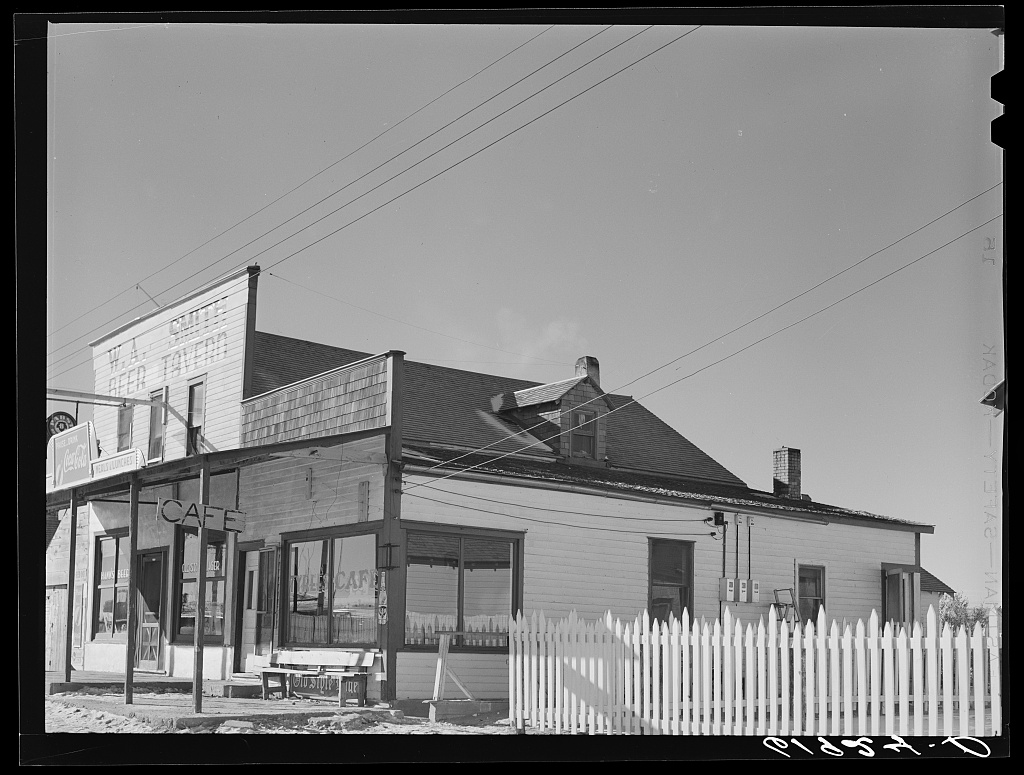 A tavern in Whiteclay, Nebraska in Sheridan County. 400 yards south of the Pine Ridge Indian Reservation in South Dakota